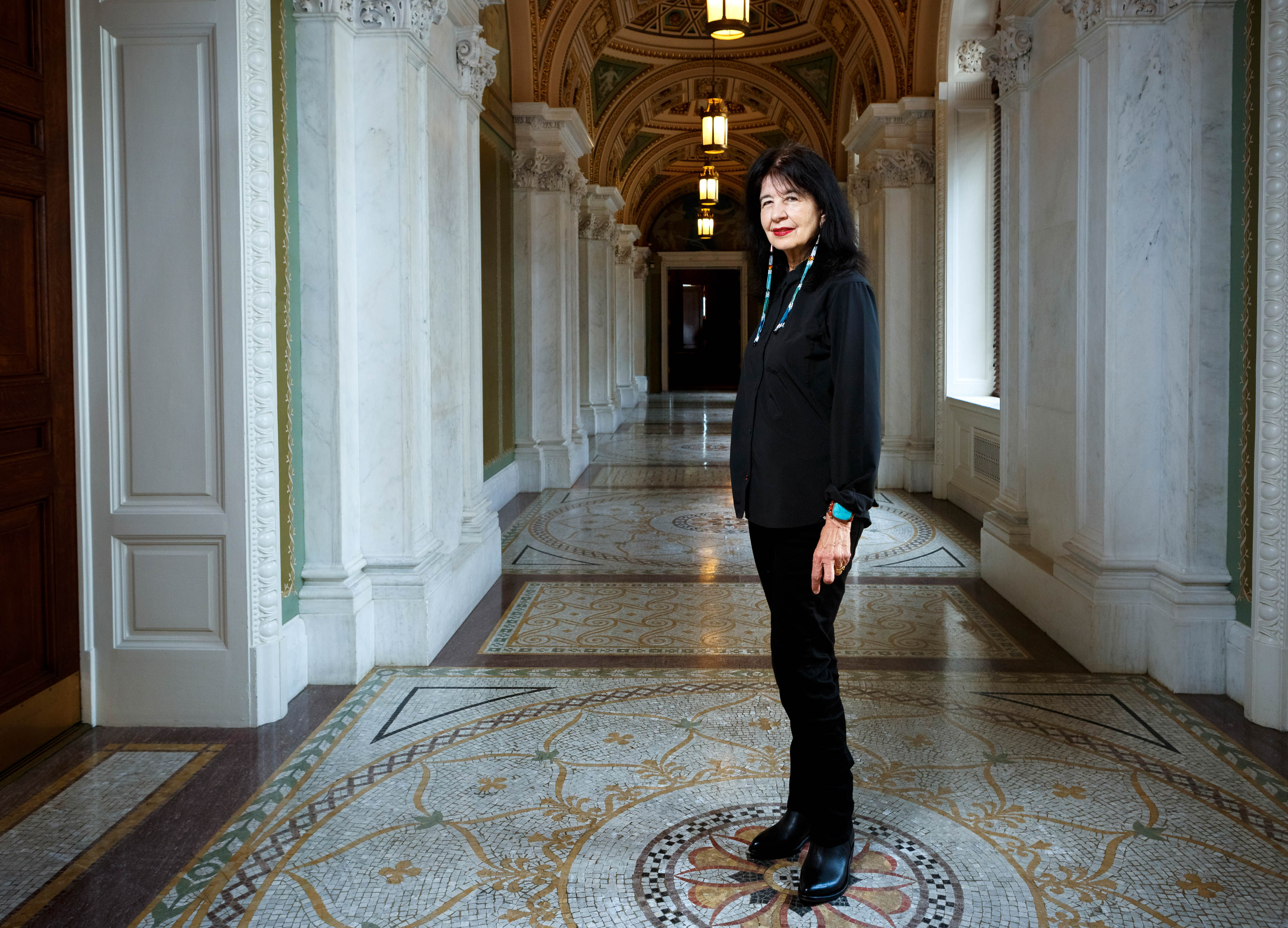 Poet Laureate of the United States Joy Harjo, June 6, 2019. Harjo is the first Native American to serve as poet laureate and is a member of the Muscogee Creek Nation. Photo by Shawn Miller/Library of Congress. Note: Privacy and publicity rights for individuals depicted may apply.